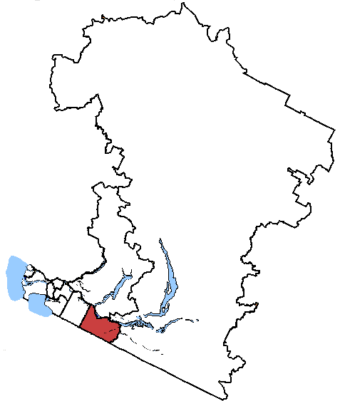 Map of Abbotsford, British Columbia